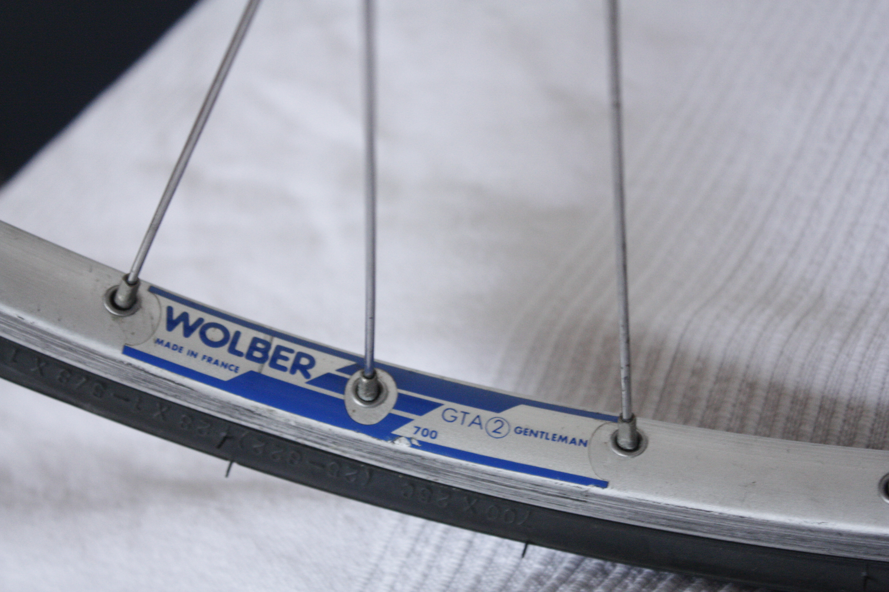 Wolber Rim